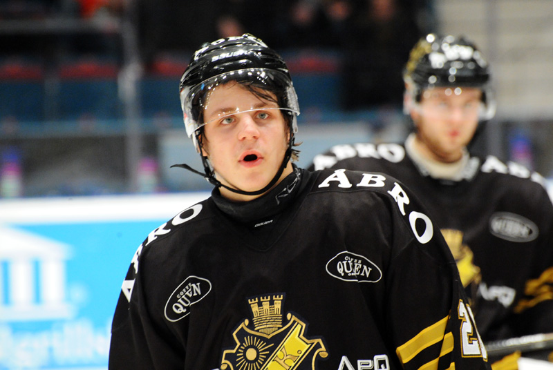 Swedish ice hockey player Mattias Janmark of AIK Ishockey